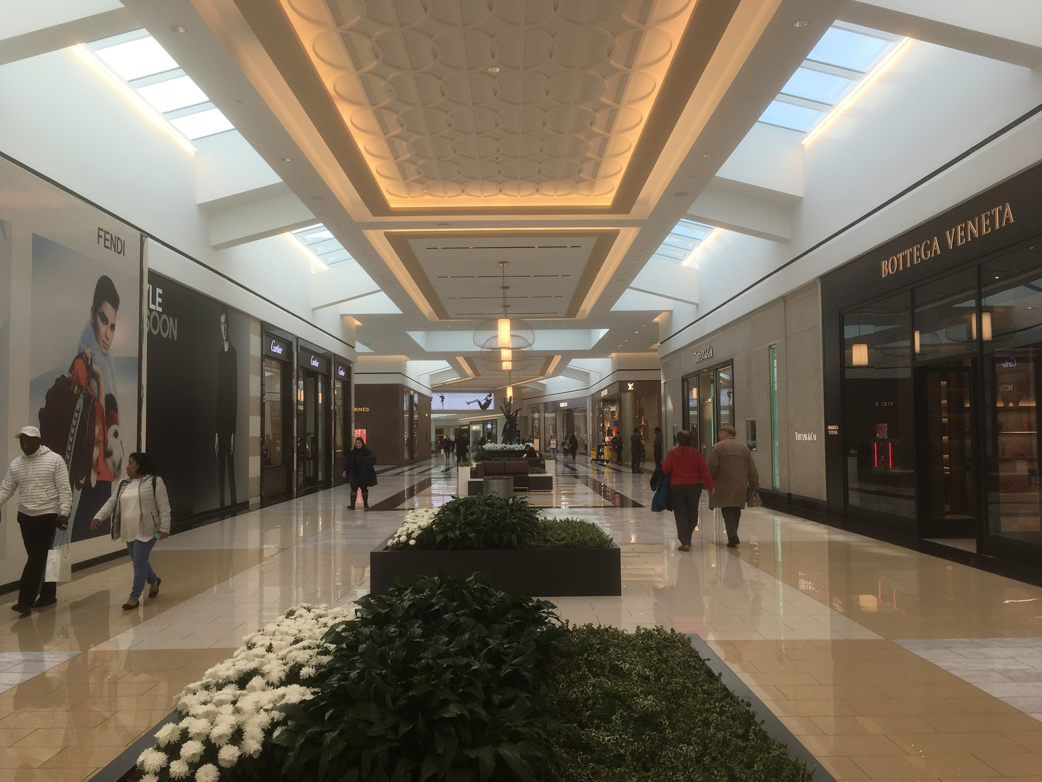 The expansion corridor of the King of Prussia Mall in King of Prussia, Pennsylvania between Macy's and Neiman Marcus